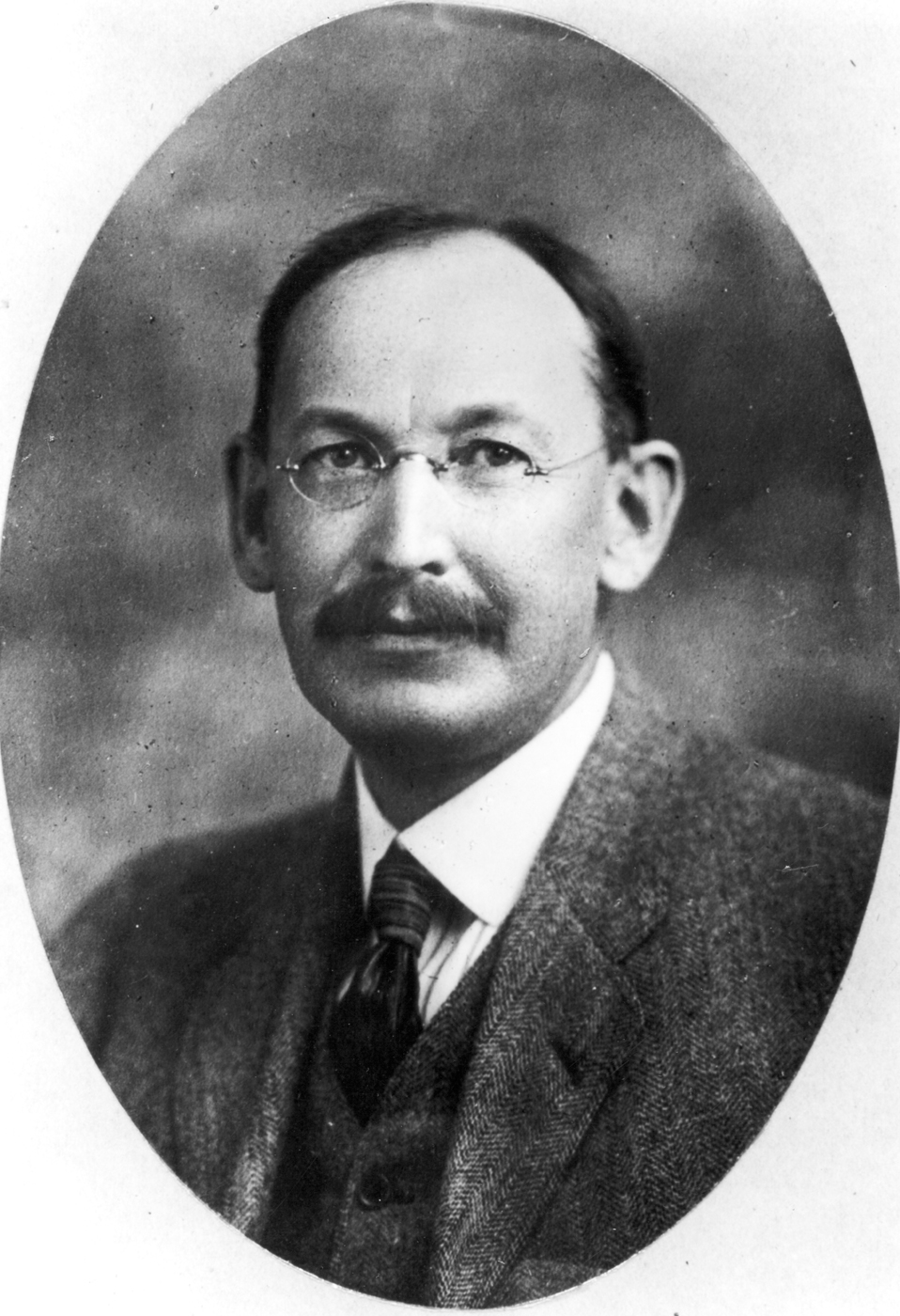 (Charles) David White. Geologist and Paleobotanist. cc. 1930.